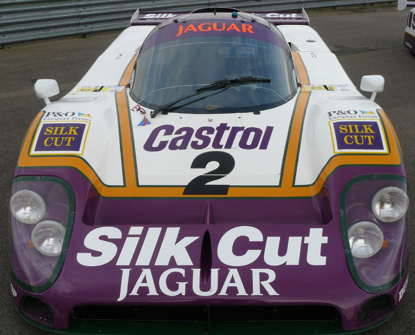 A Jaguar XJR-9 at the Silverstone Classic